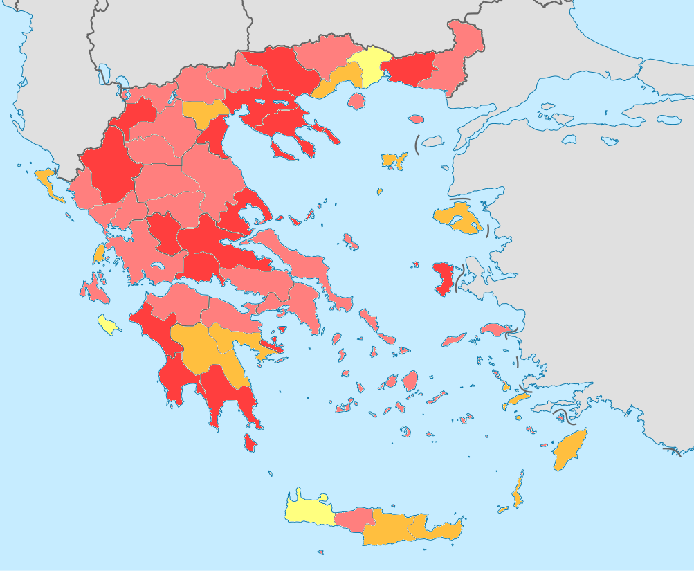 Data is from Eurostat